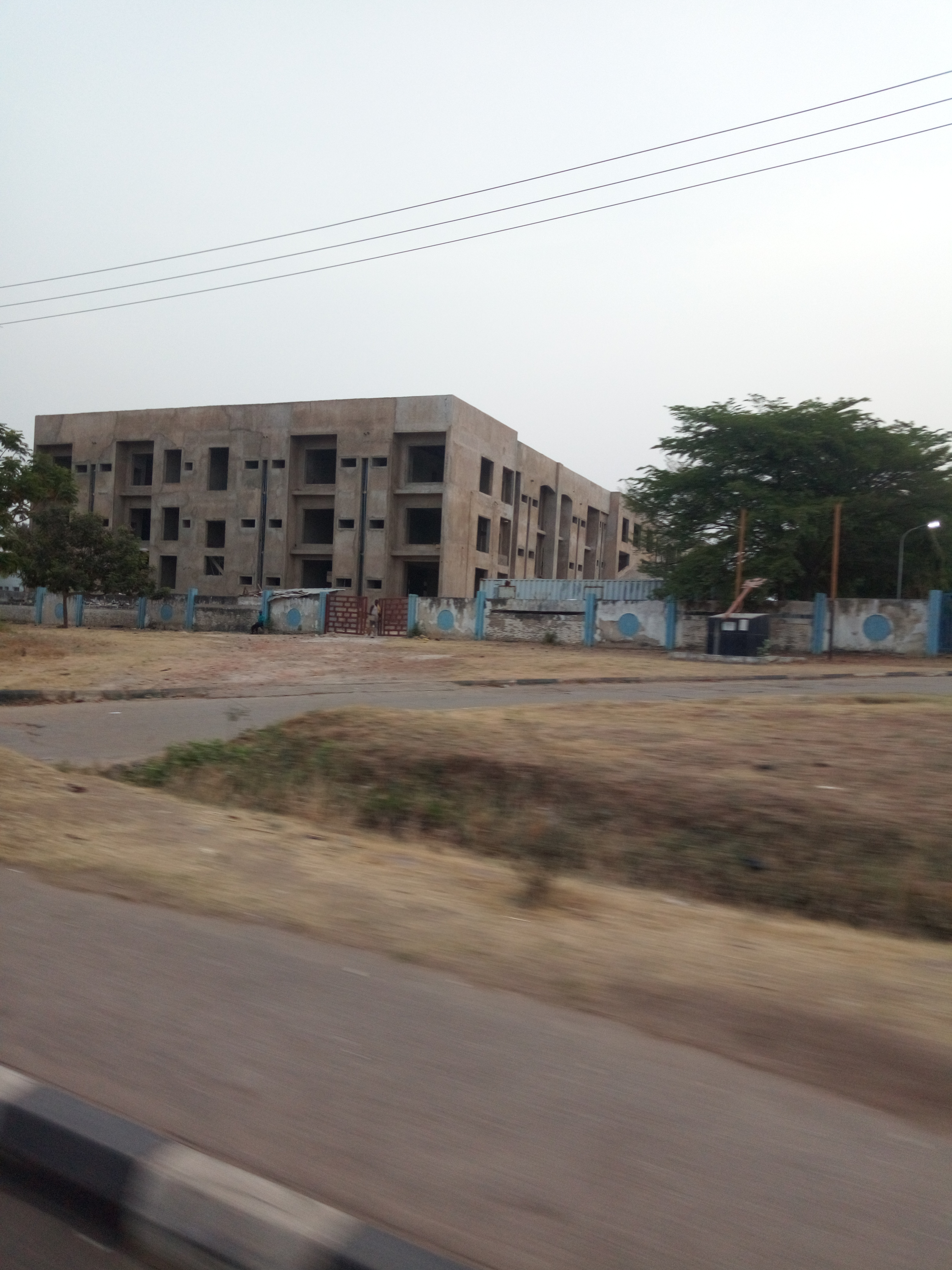 Free usage, house of assembly complex minna, new built